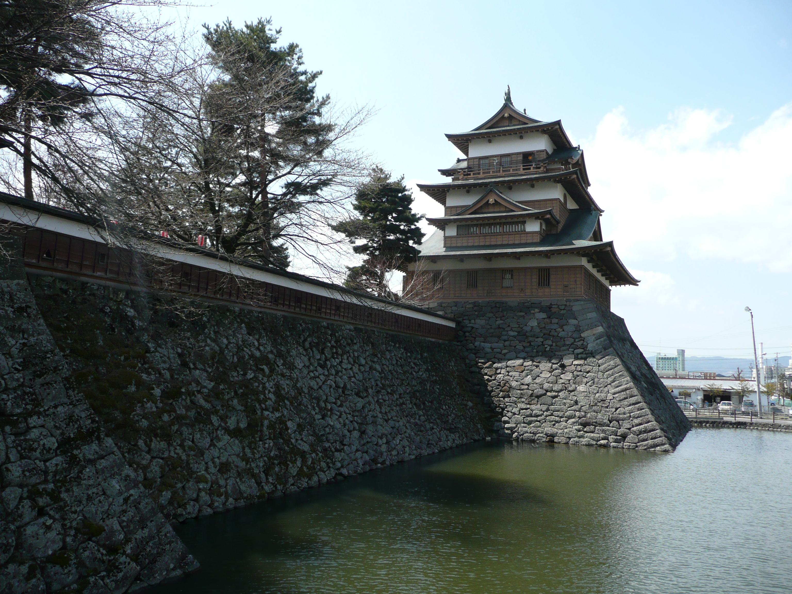 外から望む復興天守